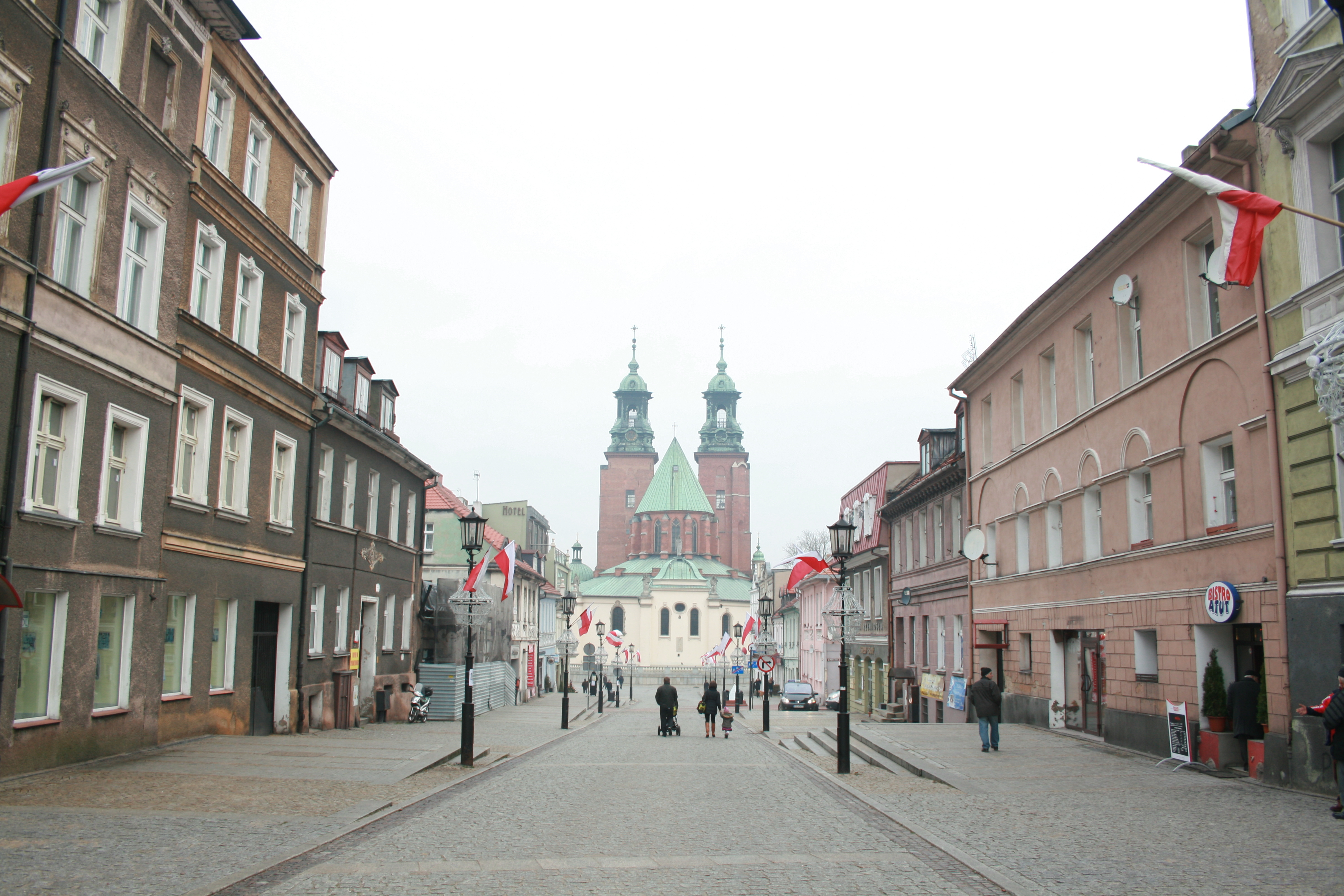 Gniezno Cathedral, Gniezno, Poland